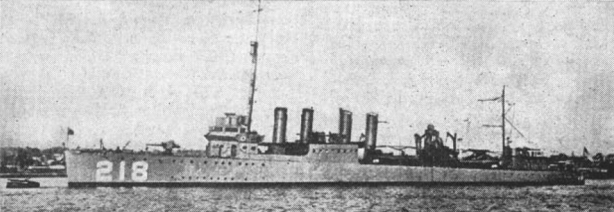 The U.S. Navy destroyer USS Parrott (DD-218) during its early service life.